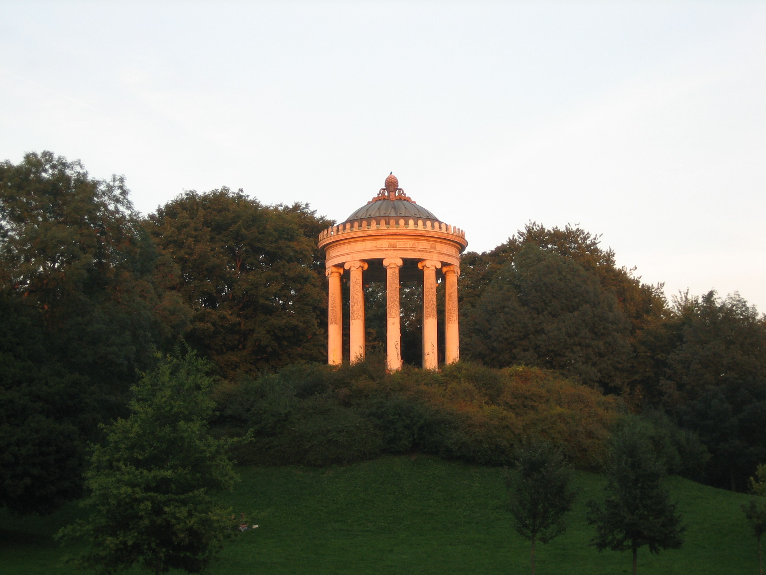 Monopteros in the "English Garden" in Munich, Germany. Designed by Leo von Klenze, this small, round, Greek style temple was erected in 1836. It was built on a hill which, in 1832, was raised from the leftover building material of the Münchner Residenz (Munich Royal Residence).